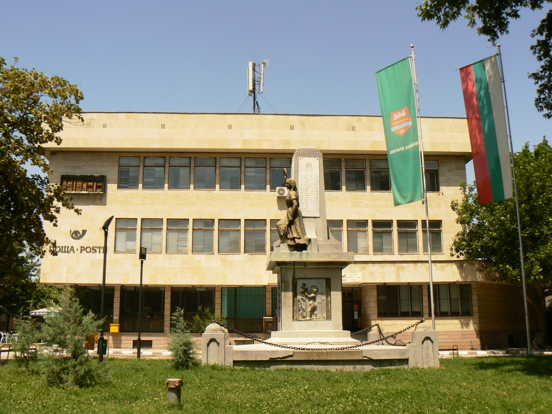 The post office and an war memorial in Krichim, Bulgaria.